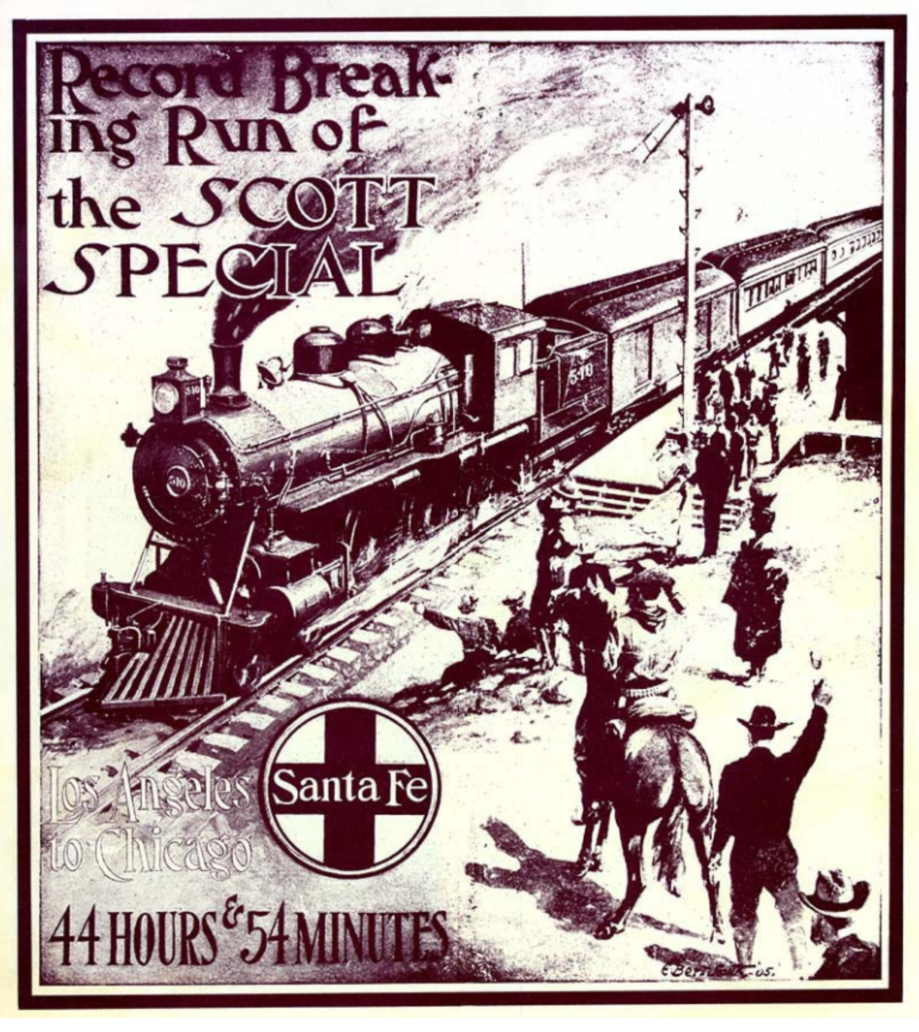 Promotional literature for the 1905 Scott Special passenger train of the Atchison, Topeka and Santa Fe Railway. img URL: Category:Atchison